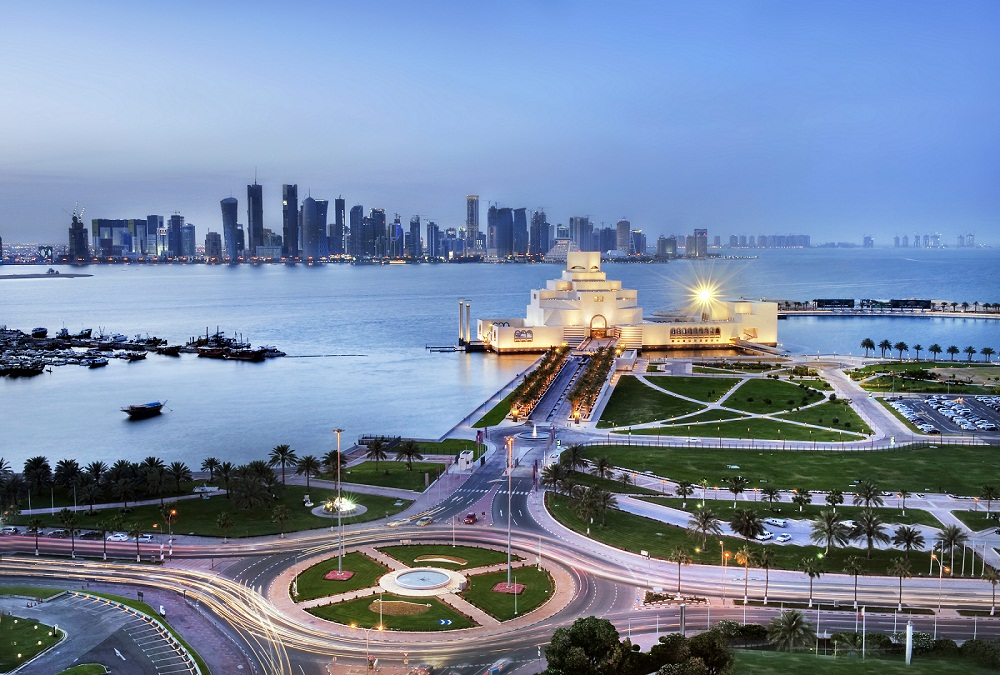 Museum of Islamic Art in Doha, with the city skyline in the background.